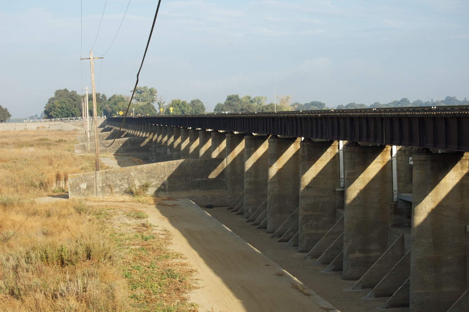 USFWS photo/Steve Culberson